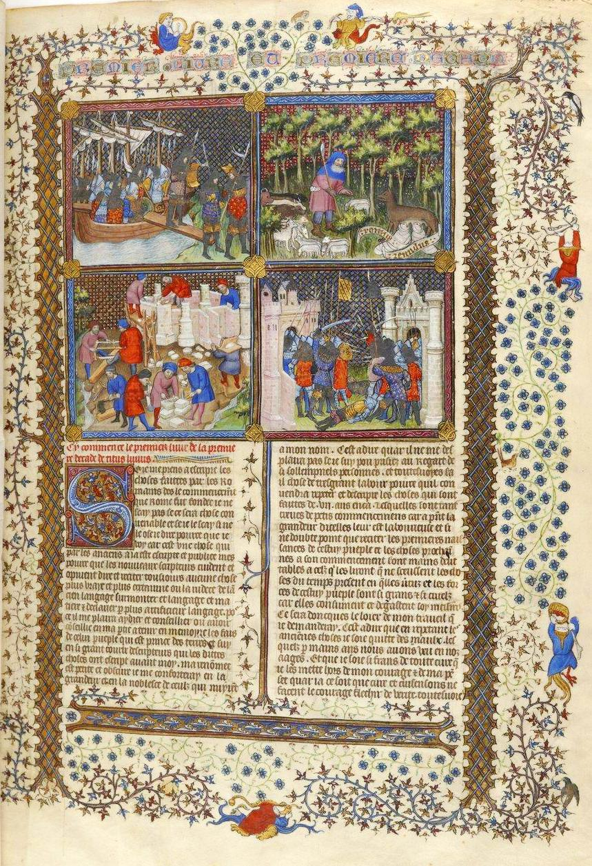 A page from the French translation of Titus Livius' work